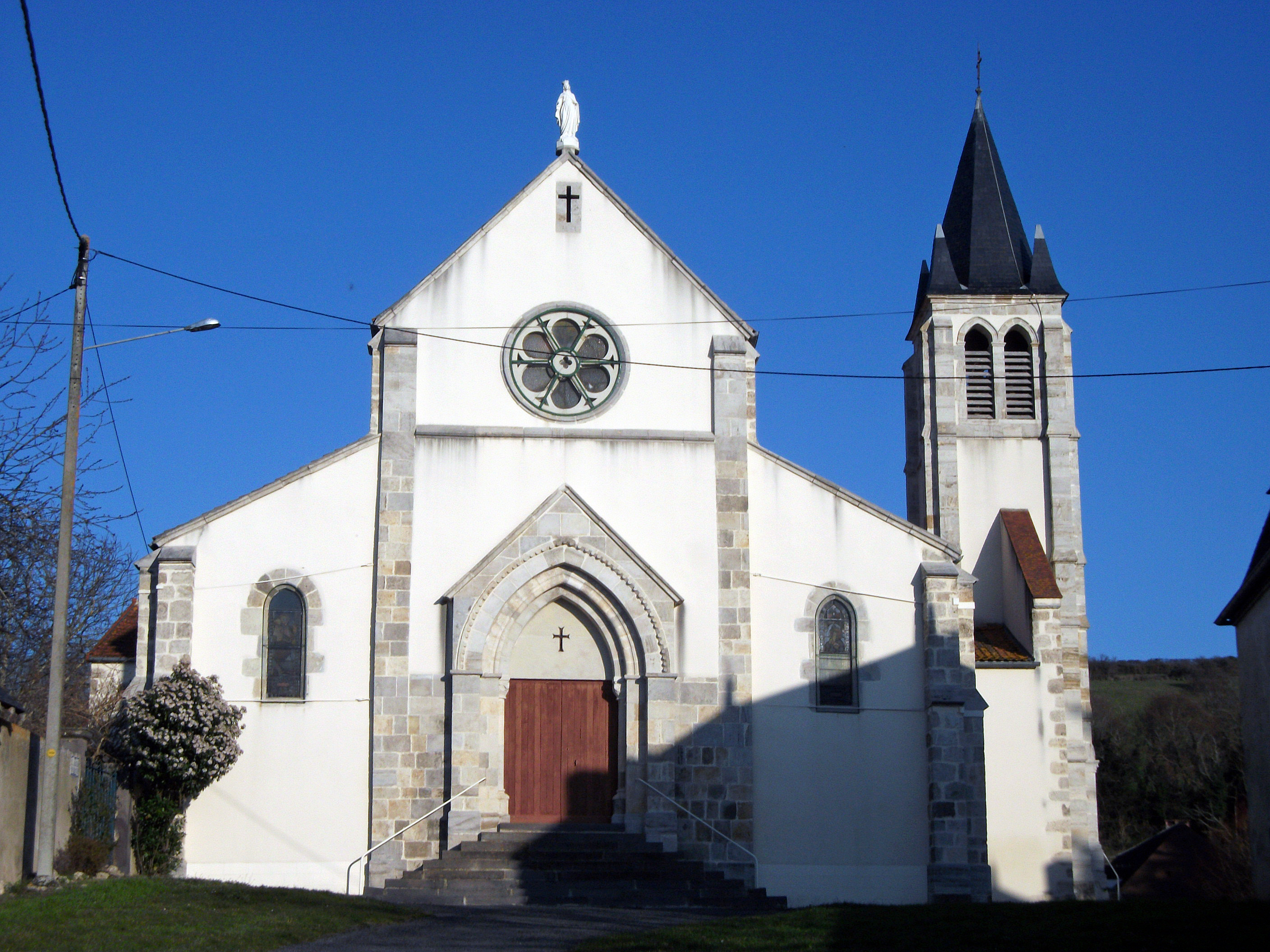 Church of Ussel-d'Allier [10506]